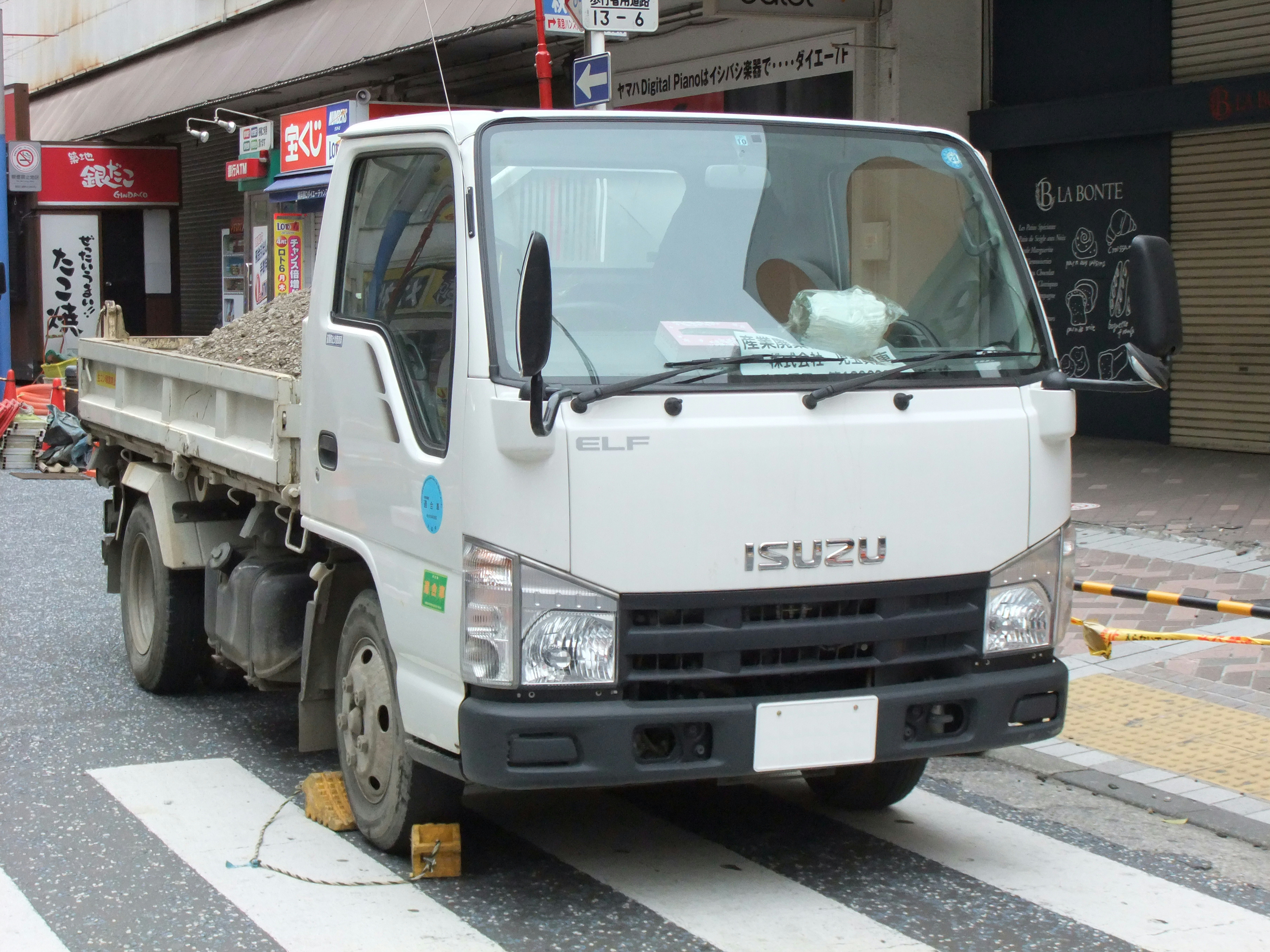 ISUZU ELF, 6th Generation vehicle, Standard-cab type, Grade ST, （It is called REWARD or N-series excluding a Japanese market.）